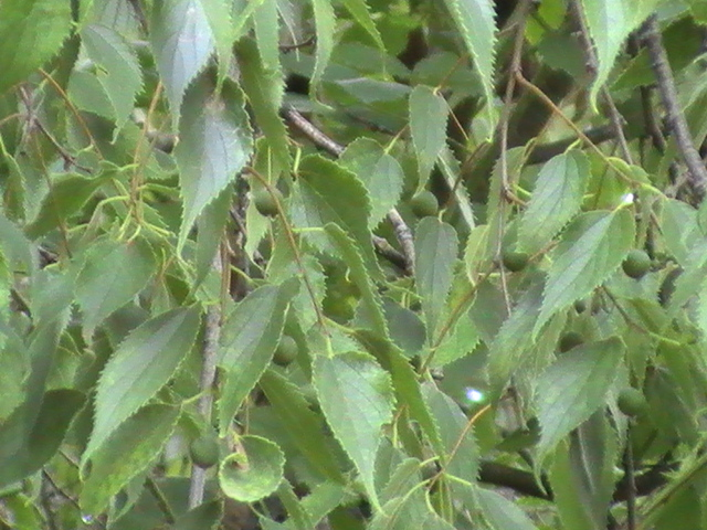 Celtis australis in Kričke, Croatia.